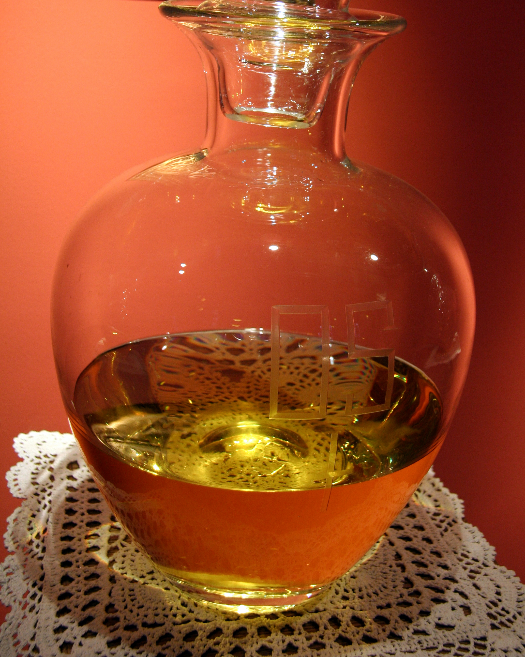 A jar of consecrated oil for ritual purposes displayed at the Roman Catholic Cathedral of the Sacred Heart in Winona, Minnesota. Etched into the glass are the letters "OS" for Oleum Sanctum, Latin for holy oil.